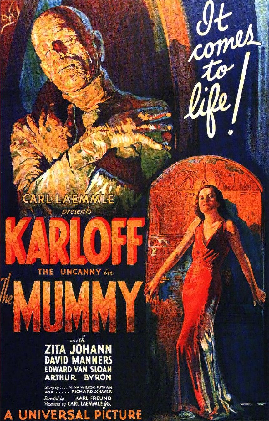 The Mummy (1932) film poster.